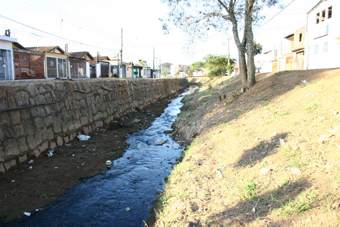 image form city Poá